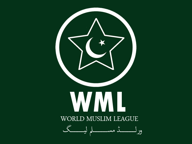 World Muslim League